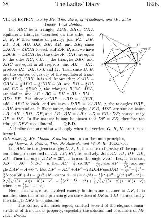 This answered a question posed in the 1825 edition.